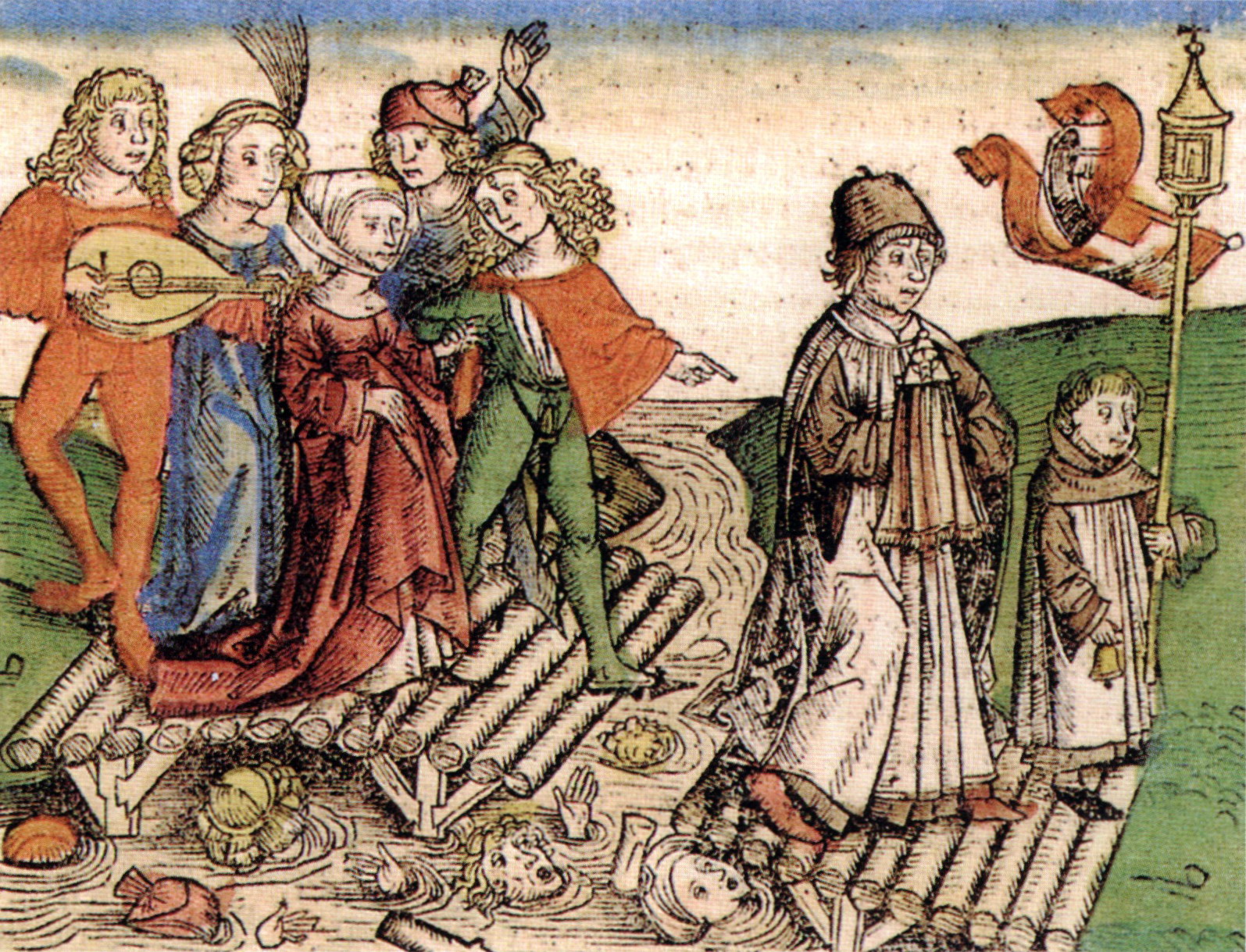 Colapse of Meuse bridge at Maastricht in 1275, as depicted in Hartmann Schedel's Weltchronik (1493)